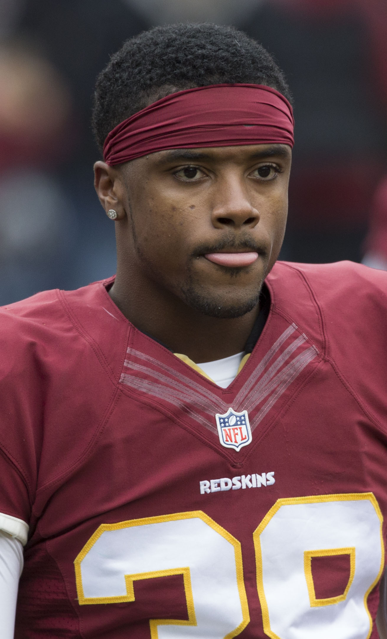 Buccaneers at Redskins 11/16/14